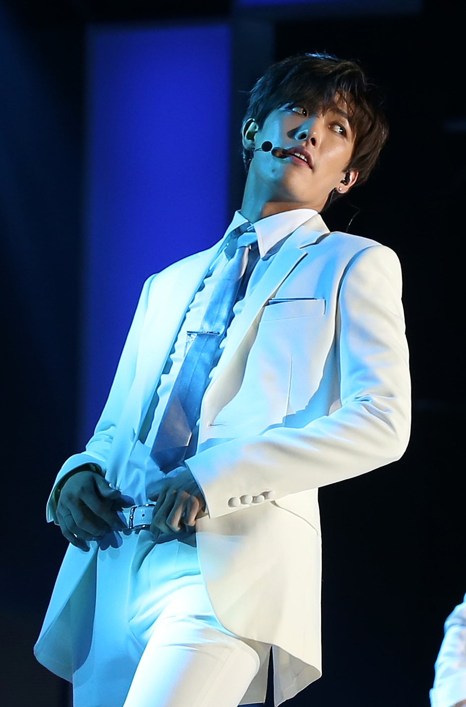 2015 Summer K-POP Festival. August 4, 2015. Seoul Plaza. Ministry of Culture, Sports and Tourism. Korean Culture and Information Service. ( Official Photographer : Jeon Han The photograph may not be used in any type of commercial, advertisement, product or promotion that in any way suggests approval or endorsement from the government of the Republic of Korea.-------------------------------------------------썸머 K-POP 페스티벌2015-08-04문화체육관광부해외문화홍보원코리아넷전한